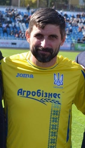 Serhiy Shyshchenko